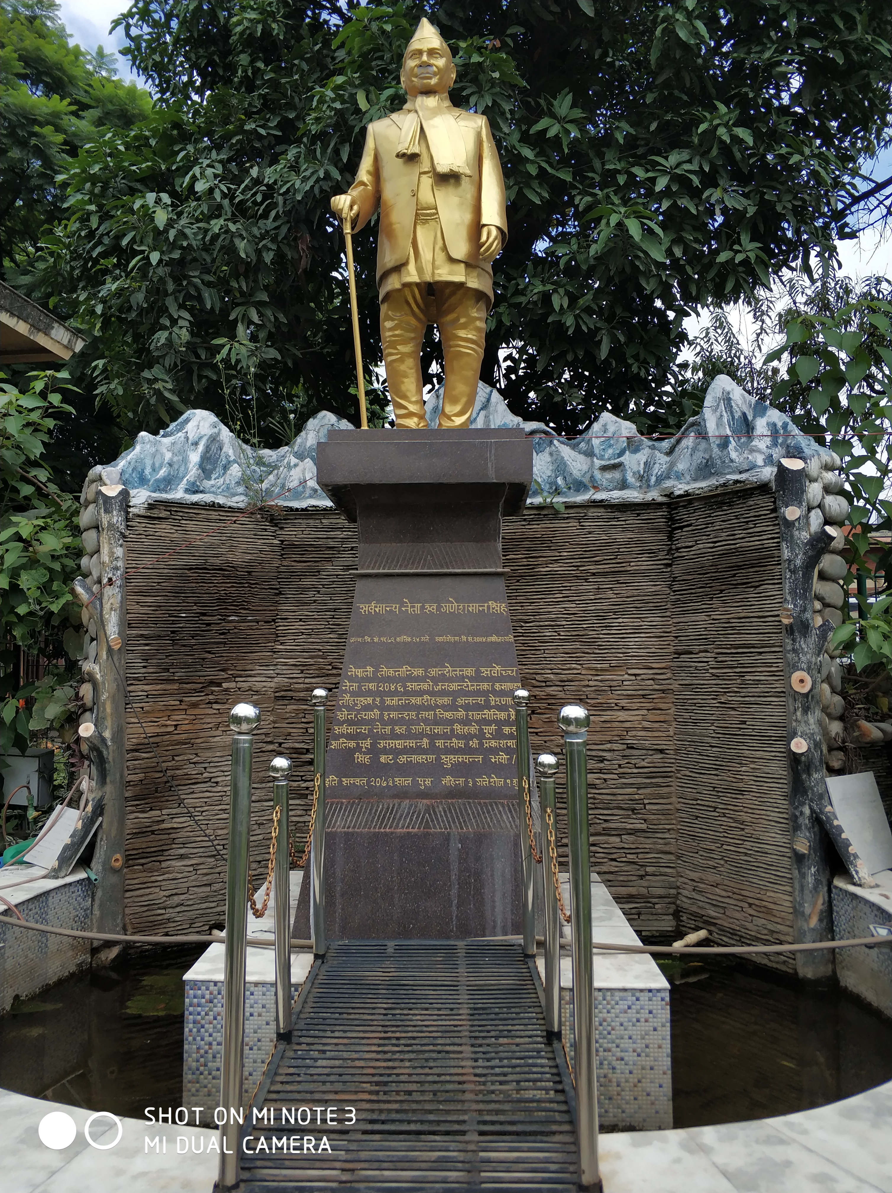 Gamesh Man Singh